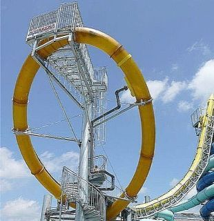 Acqualoop